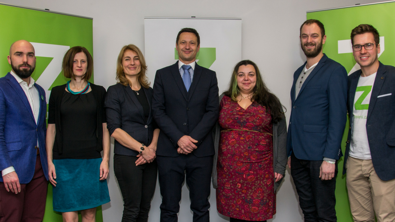 The Board of the Czech Green Party. From the left: Jan Perla, member of the board; Karolína Žákovská, 3rd deputy chairwoman; Magdalena Davis, 1st deputy chairwoman; Petr Štěpánek, chairman; Petra Jelínková, 2nd deputy chairwoman; František Vosecký, member of the board; Vít Masare, member of the board.